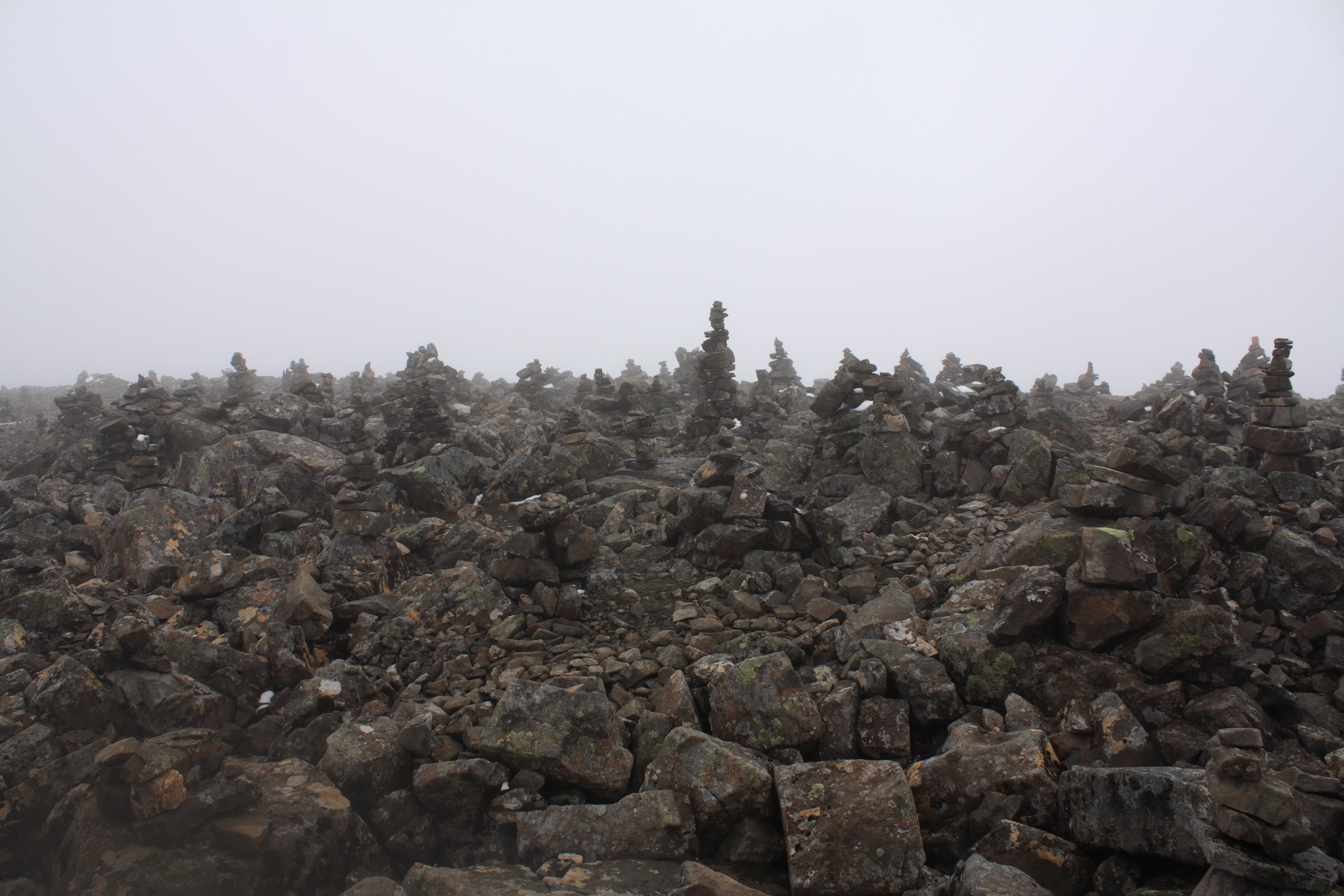 Cairns along the horizon of the summit of the mountain Vierramvare in the Kebnekaise massif during foggy weather.